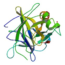 Authors: Freer, S.T., Kraut, J., Robertus, J.D., Wright, H.T., Xuong, N.H.